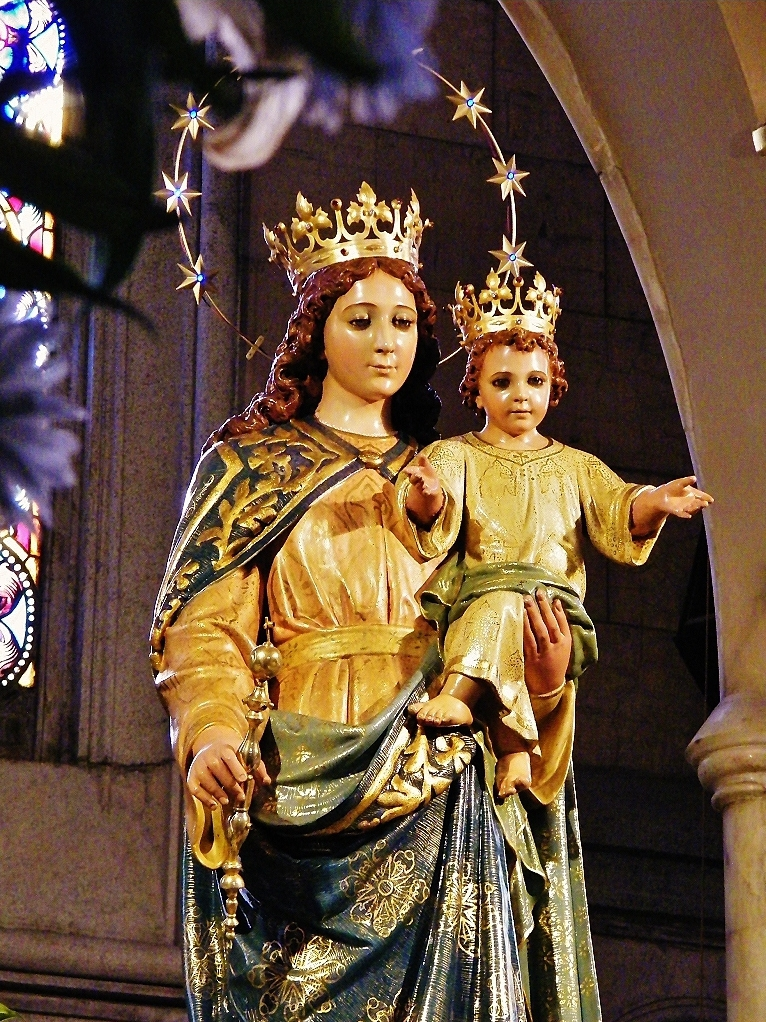 Shrine of Our Lady Help of Christians, Miguel Hidalgo, Federal District, Mexico